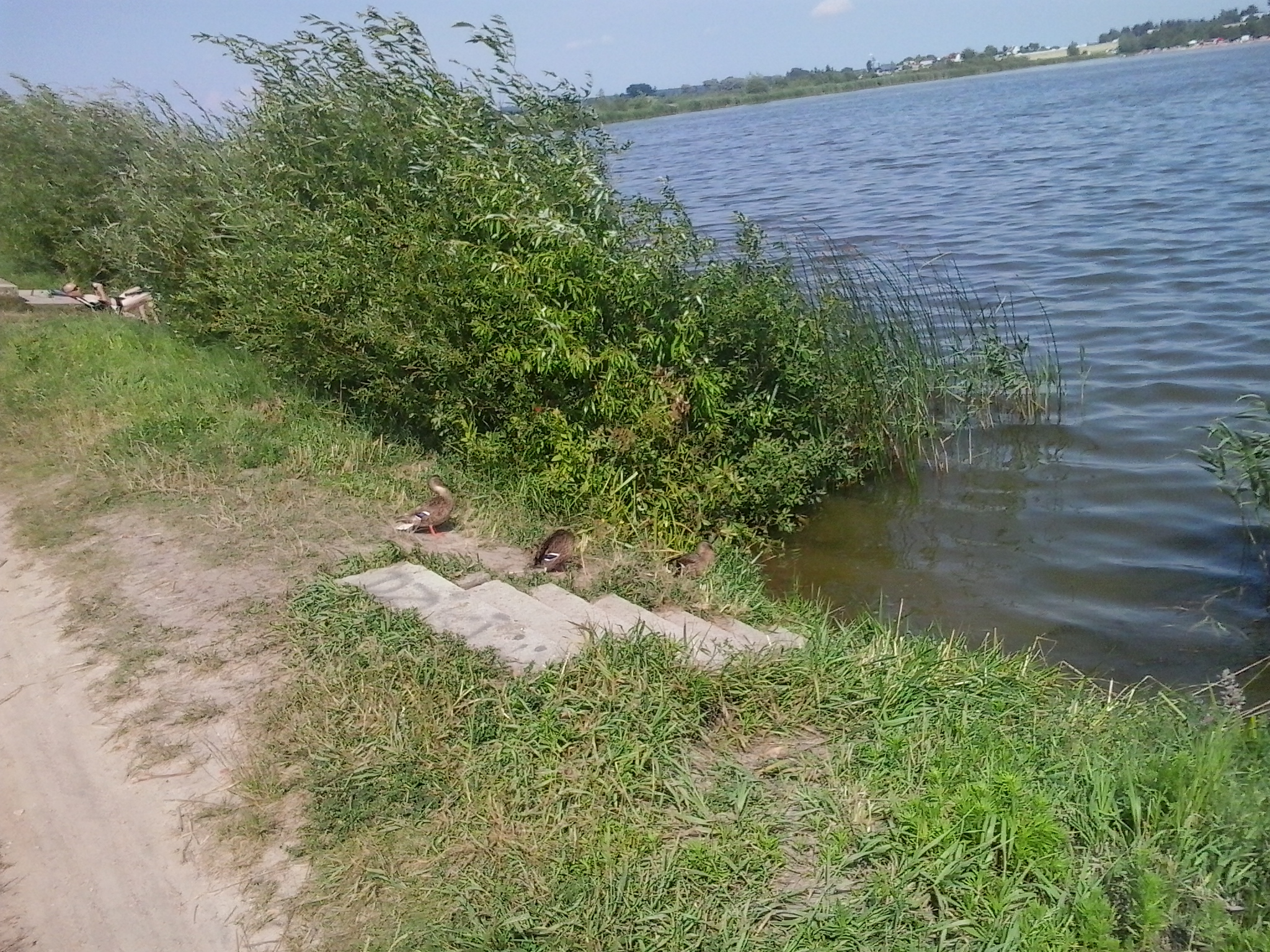 ducks